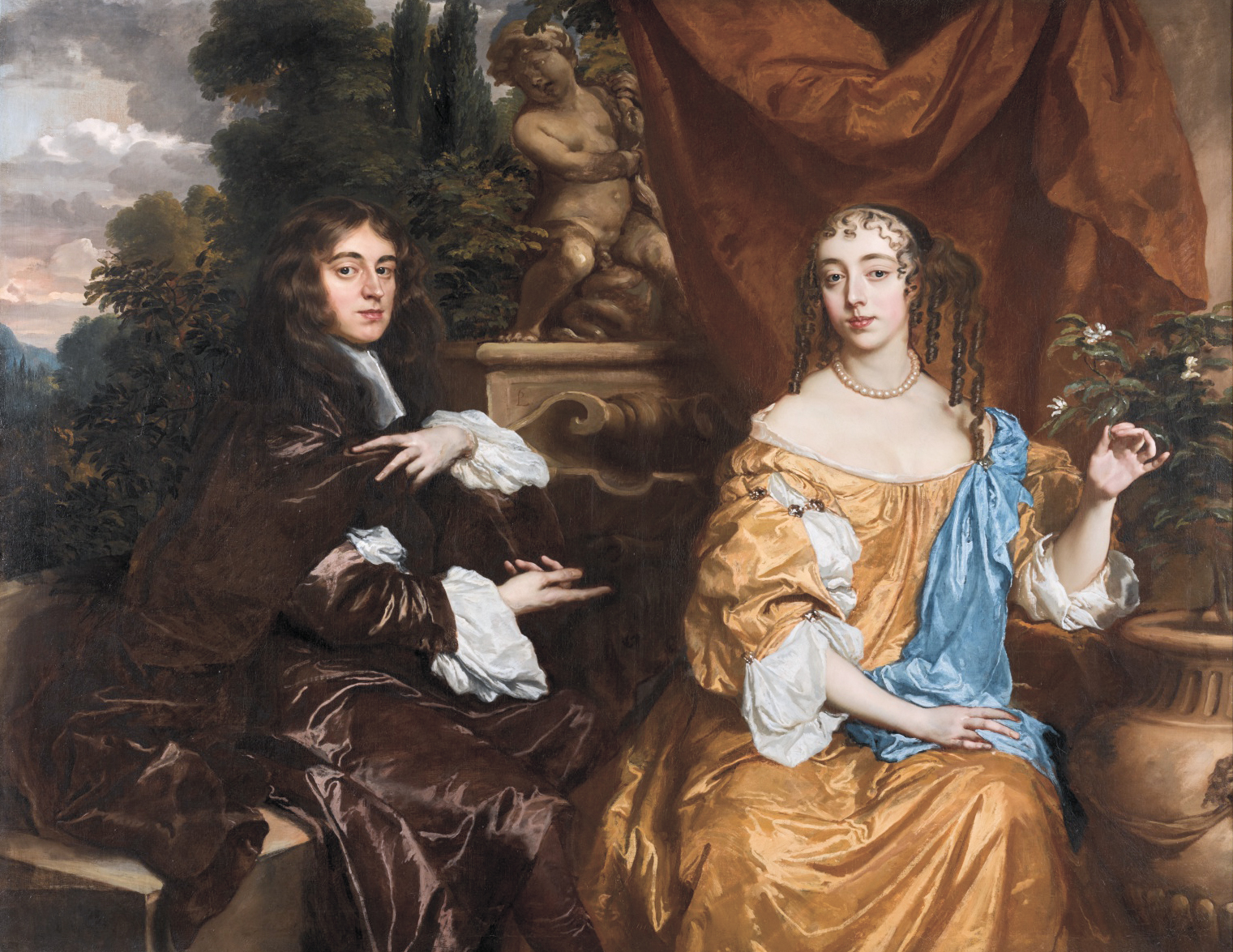 Henry Hyde, Viscount Cornbury, later 2nd Earl of Clarendon (1688–1709) and his wife, Theodosia Capel, Viscountess Cornbury oil on canvas 143 x 181.5 cm signed c.: PL